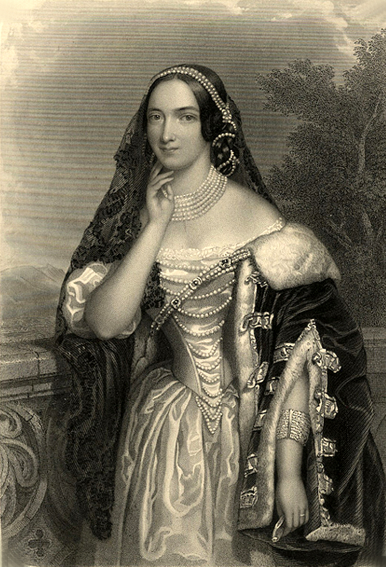 Karolina Zichy, wife of György Károlyi